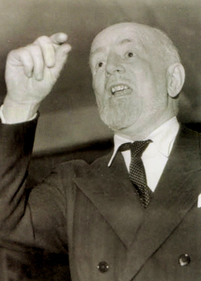 Hans Adolf Wendland.